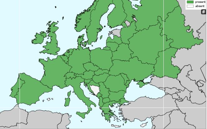 Rasprostranjenje vrste u Evropi (Fauna Europaea)